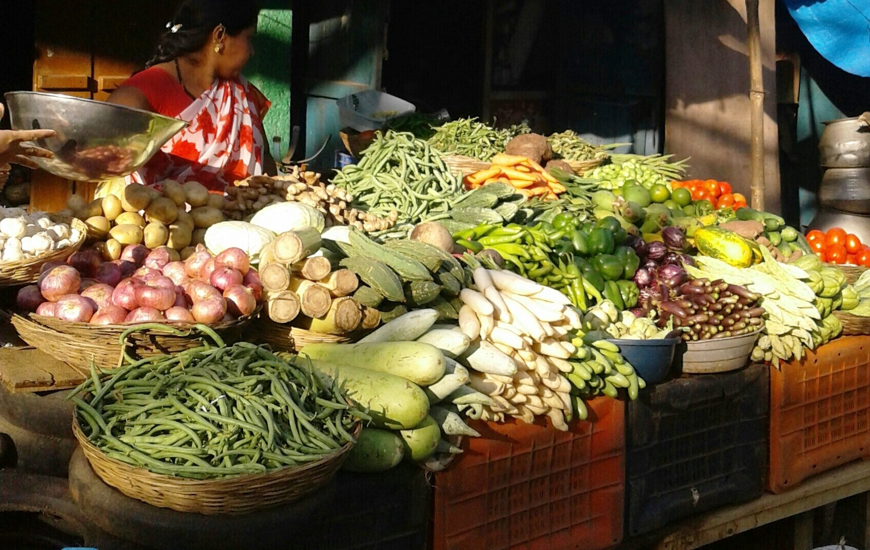 Mysore South, Karnataka, India.